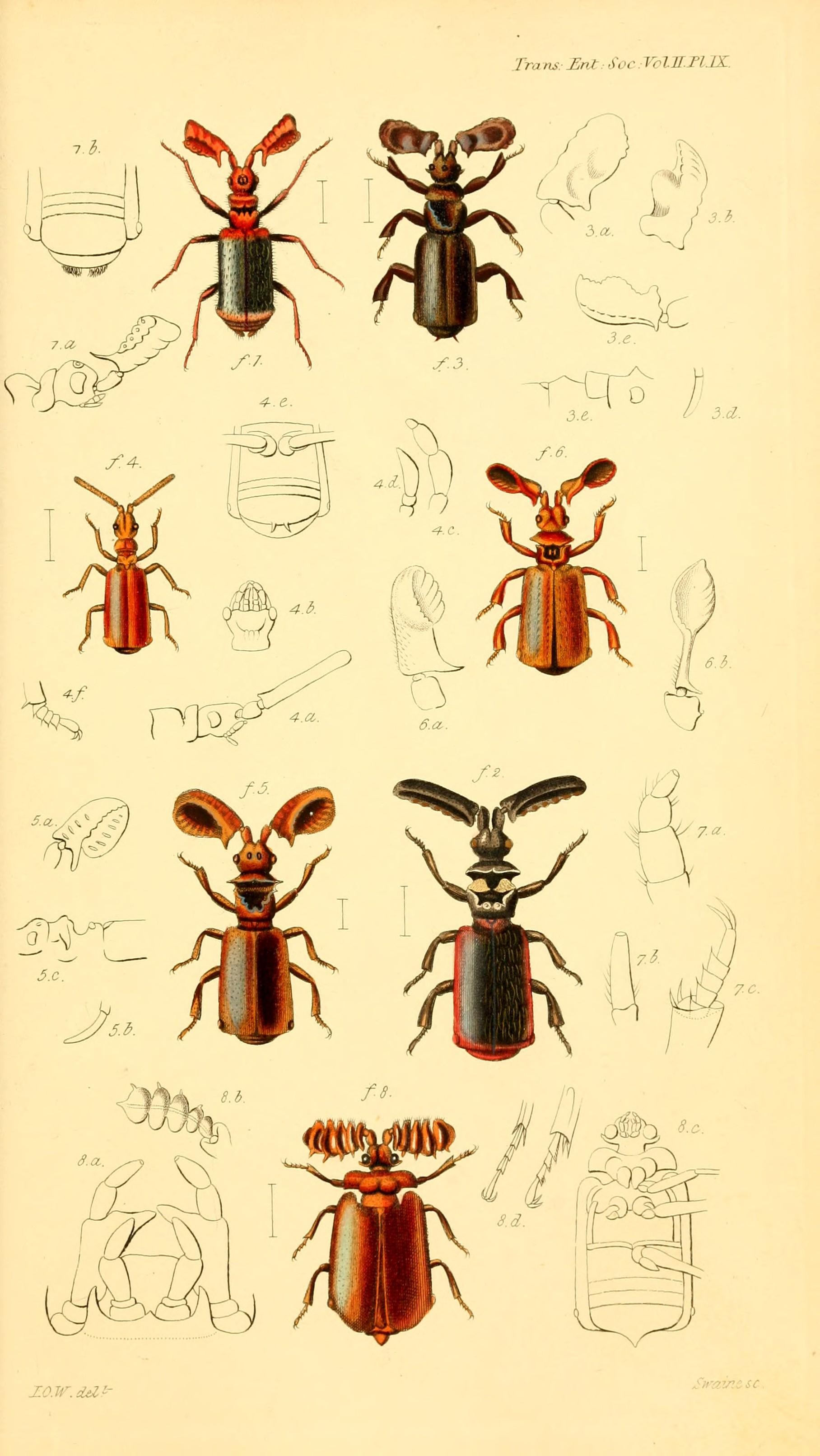 Plate IX from volume 2nd of "Transactions of the Entomological Society of London". Fig. 1. Paussus fichtelii Fig. 2. Paussus klugii Fig. 3. Paussus burmeisteri Fig. 4. Paussus shuckardi Fig. 5. Paussus ruber Fig. 6. Paussus cochlearius Fig. 7 a, b, c. Paussus armatus Fig. 8. Lebioderus gorii